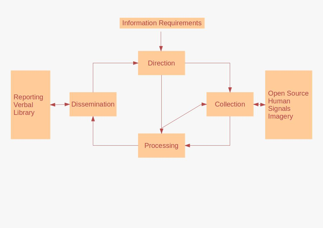 The Intelligence Cycle as used in NATO countries